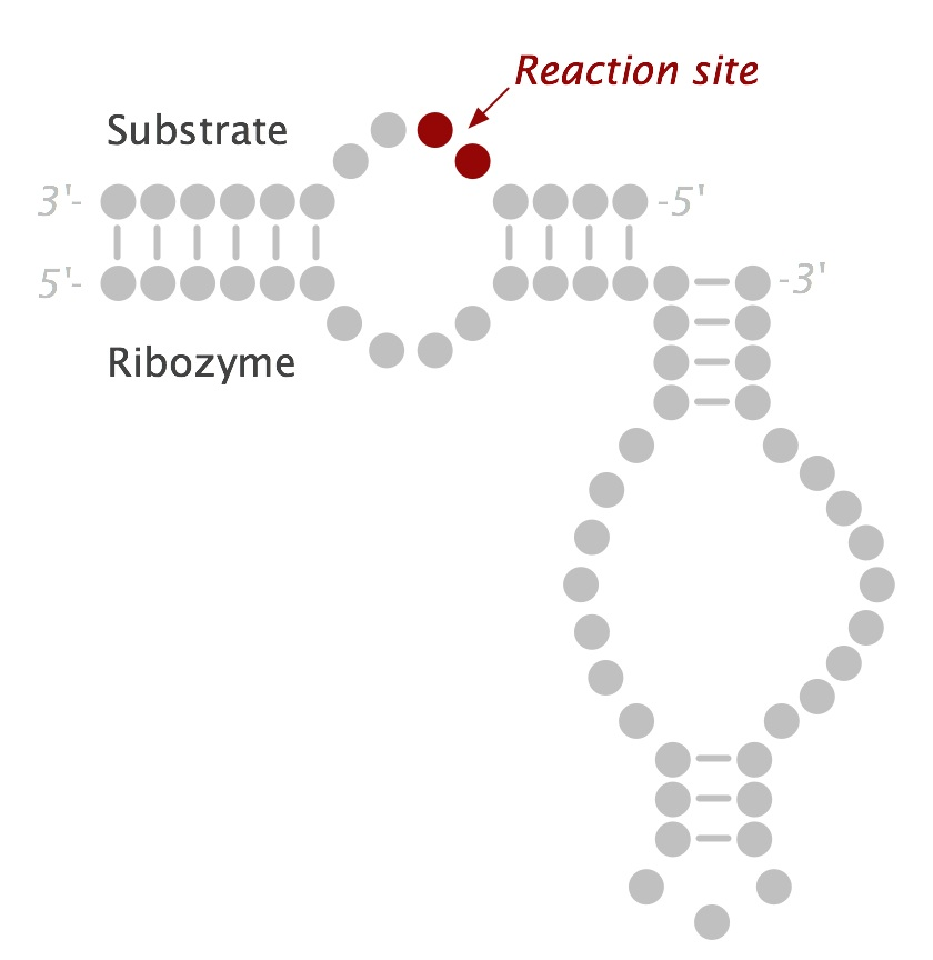 SImple RNA secondary structure diagram of a minimal hairpin ribozyme-substrate complex